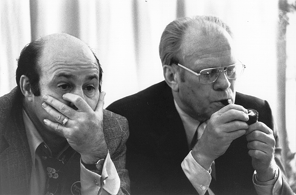 Baseball player and television personality Joe Garagiola (left) watches 1976 election returns with US President Gerald Ford (right).